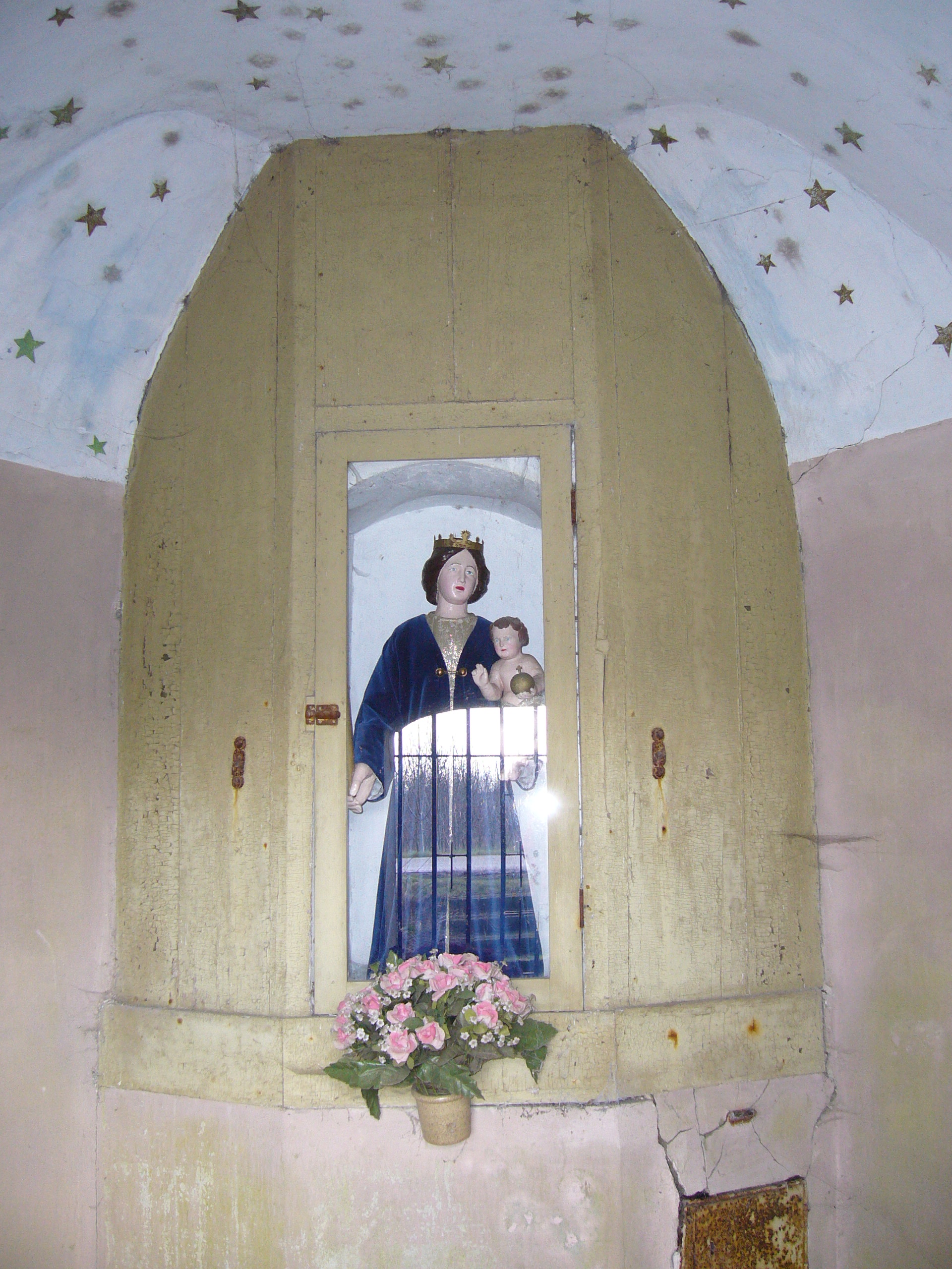 Interior of Mary chapel in Megelsum, hamlet in Meerlo-Wanssum, Limburg, the Netherlands.